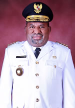 Lukas Enembe as Governor of Papua, Second Period